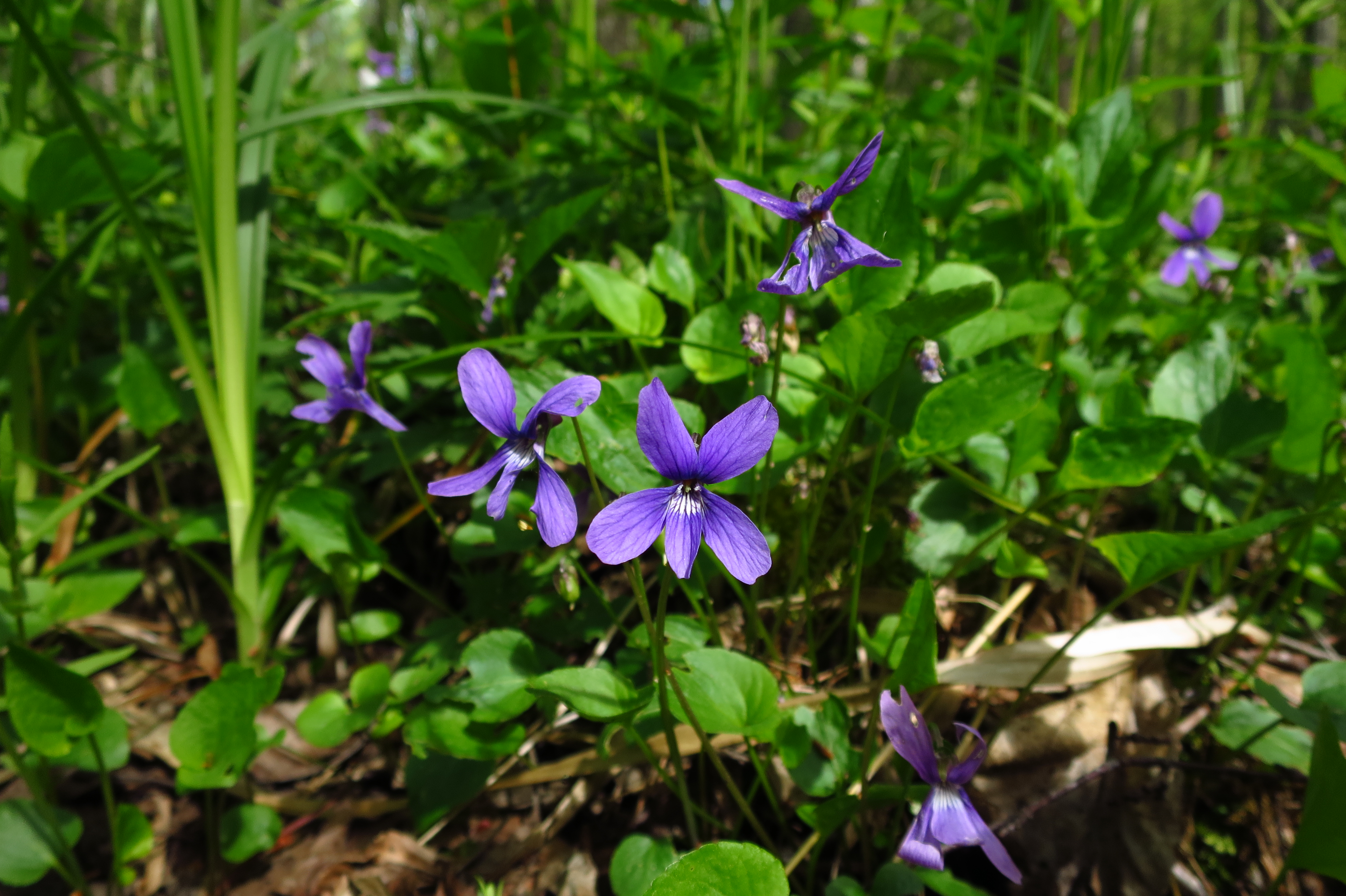 Viola uliginosa in Estonia